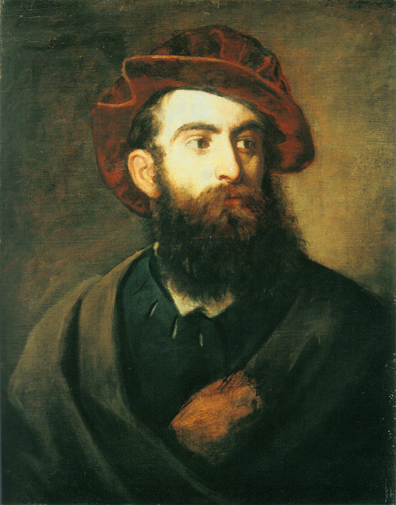 Hans Makart was a 19th century Austrian academic history painter, designer, and decorator